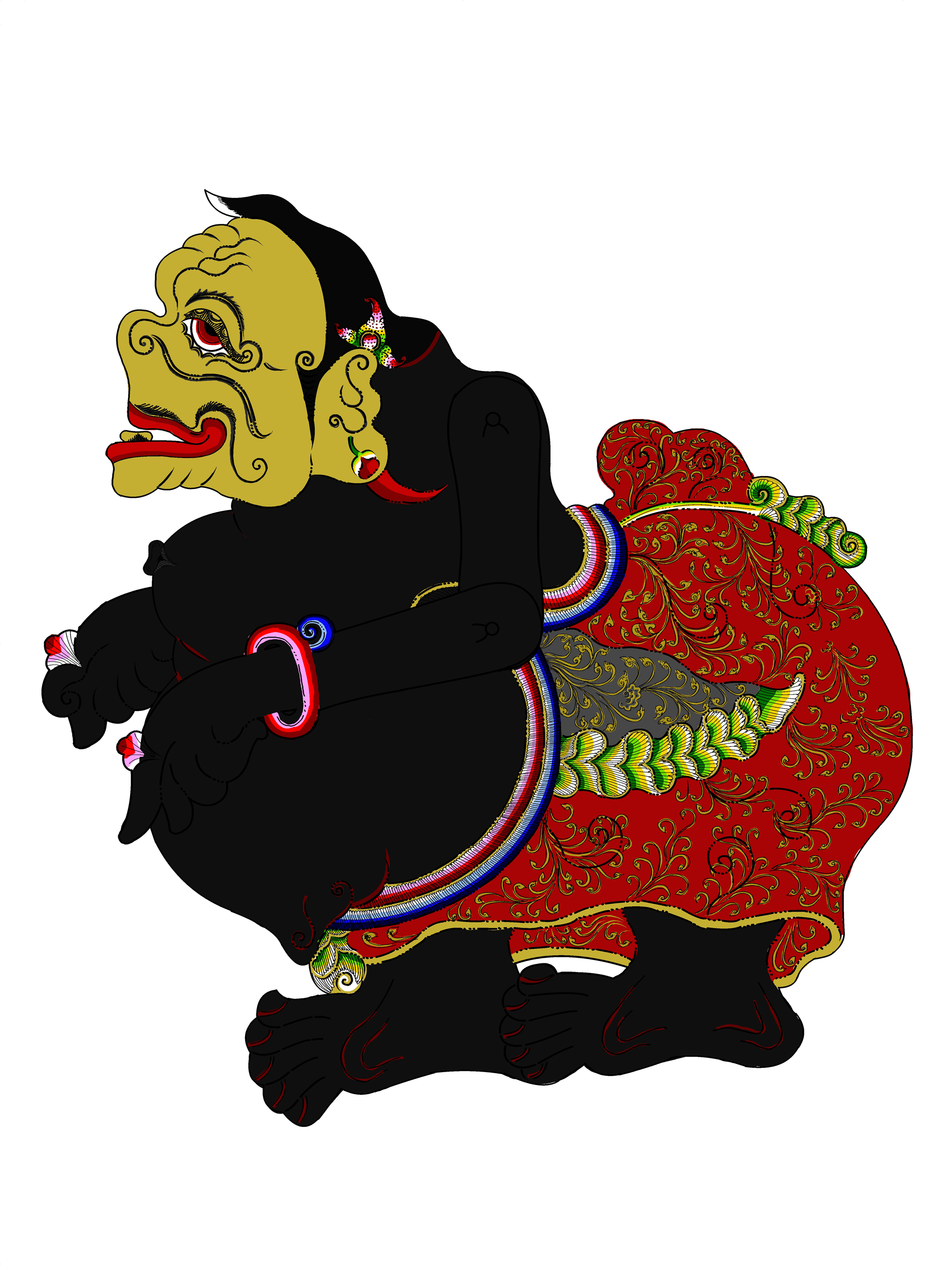 ismaya is e-wayang indonesia